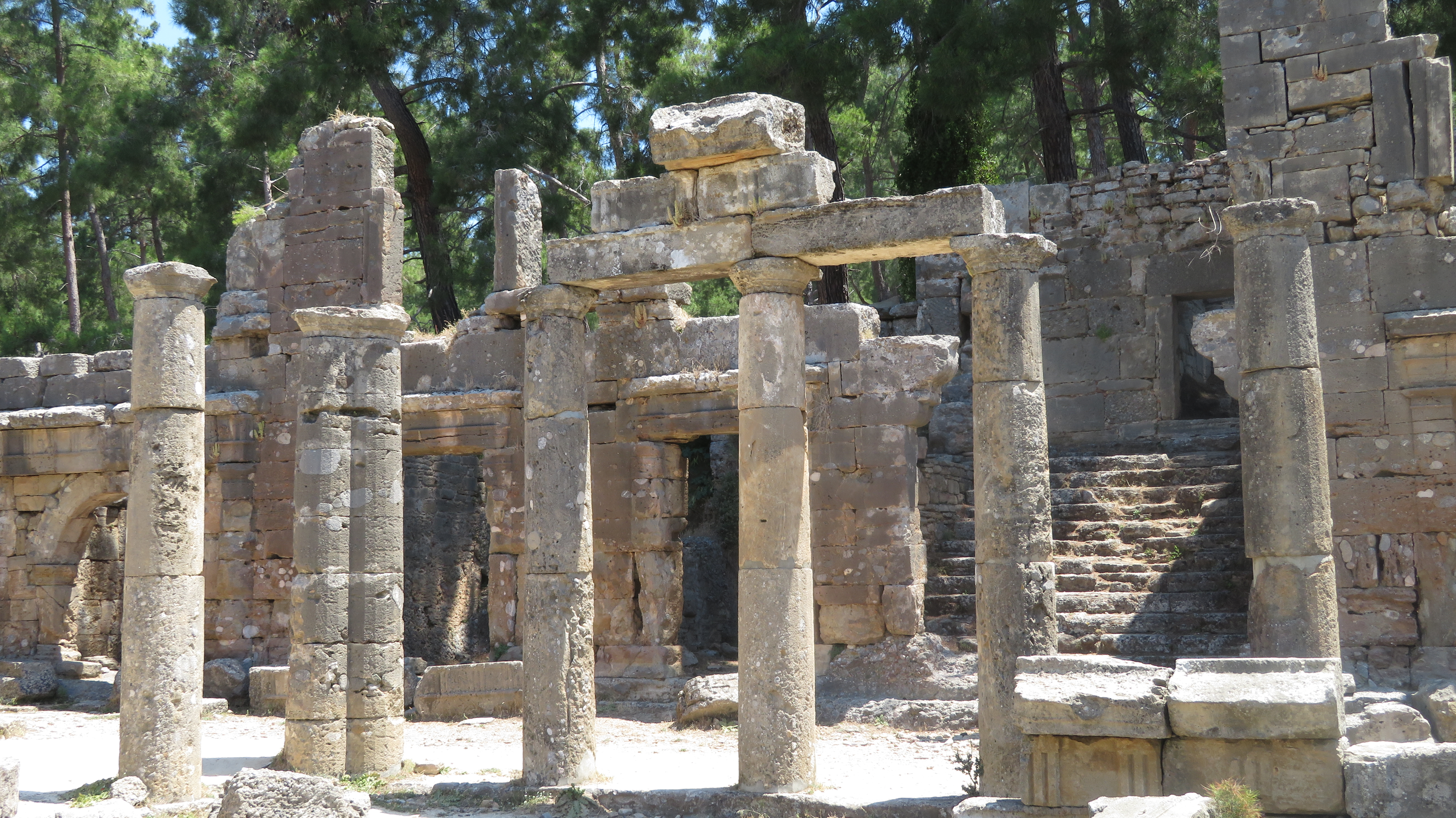 Agora of ruined city Lyrbe, previously thought Seleucia, north above the village Bucakşeyhler located near Manavgat / Antalya, Turkey